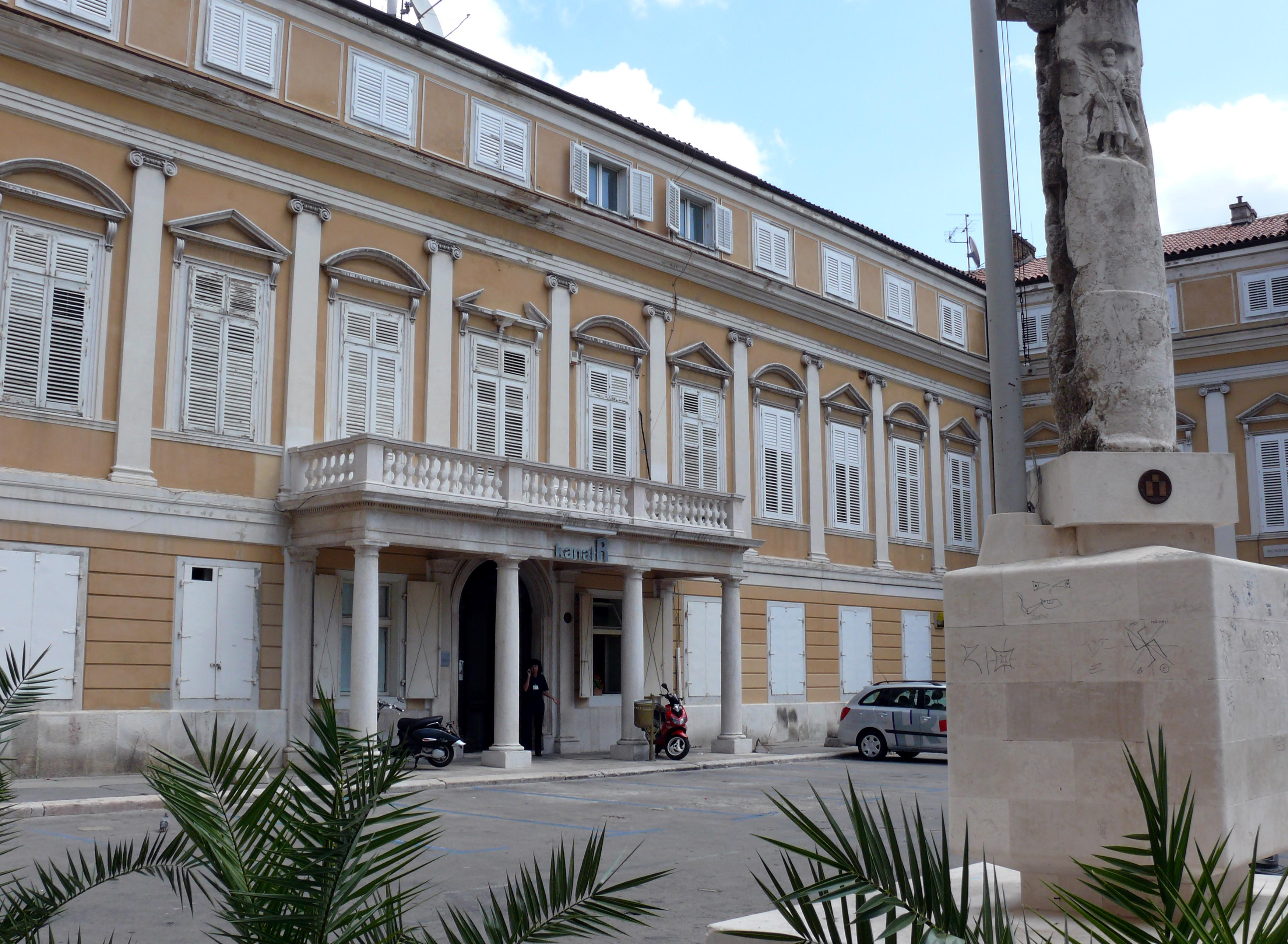 Palača Municipija - Former City Hall - Rijeka city -Croatia